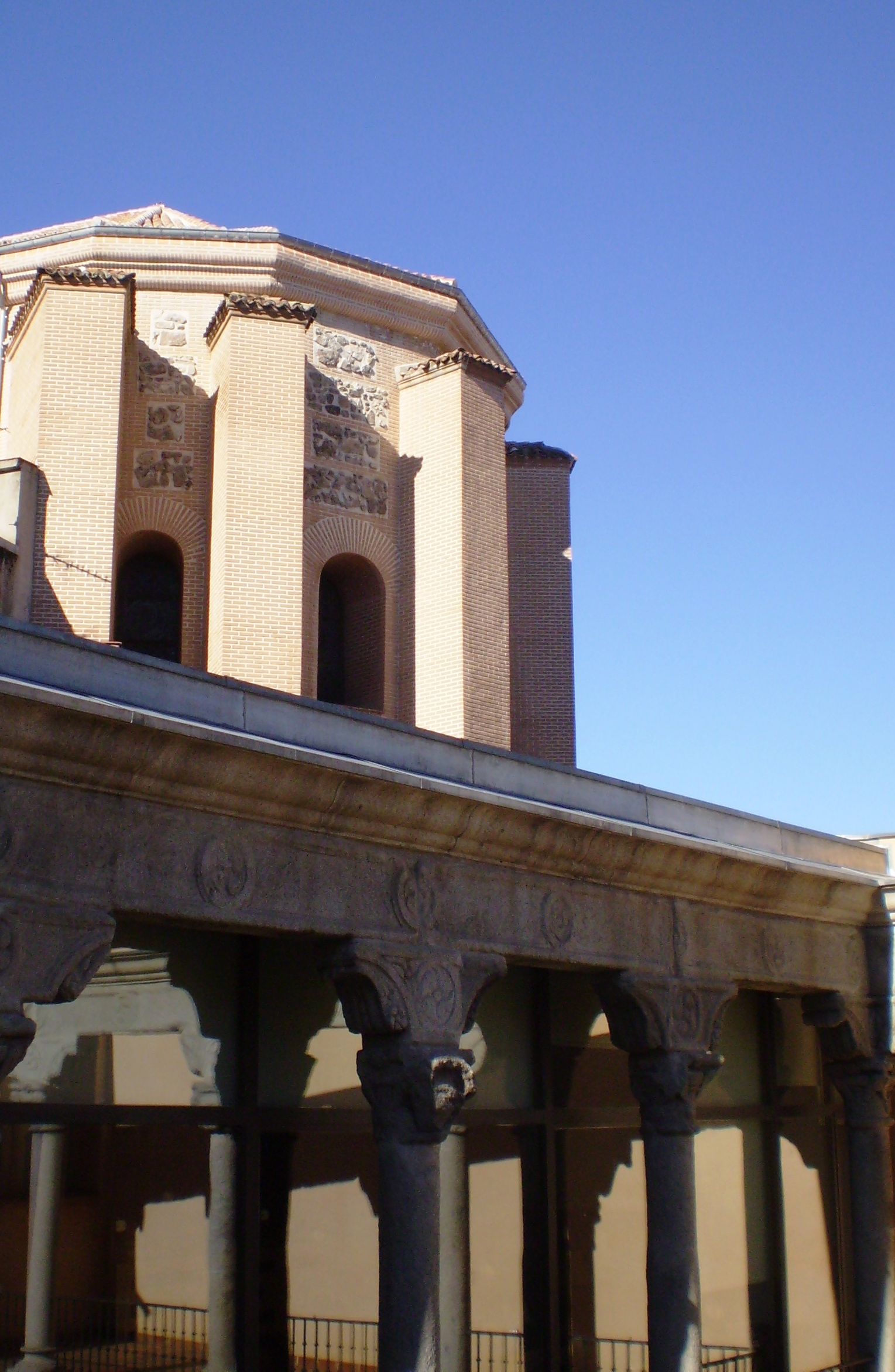 Capilla del Obispo Church, Madrid, Spain